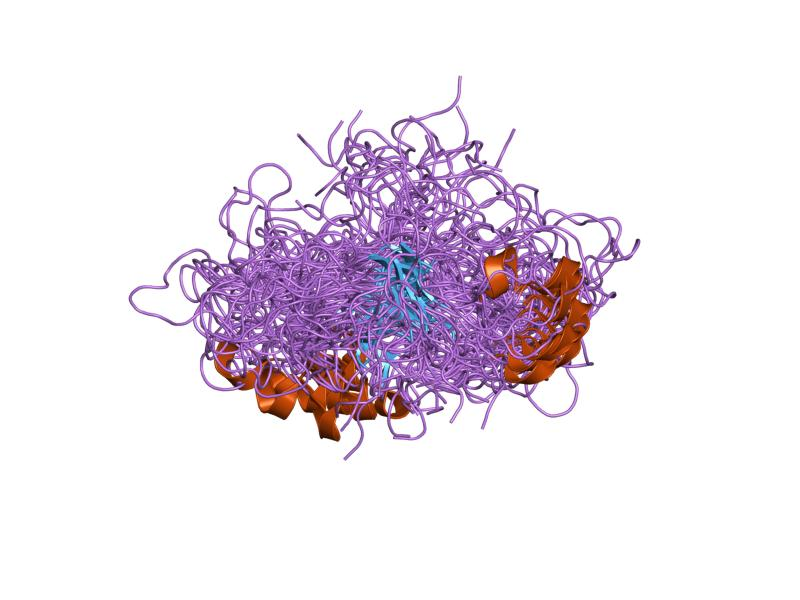 Cartoon representation of the molecular structure of protein registered with 1dz7 code.